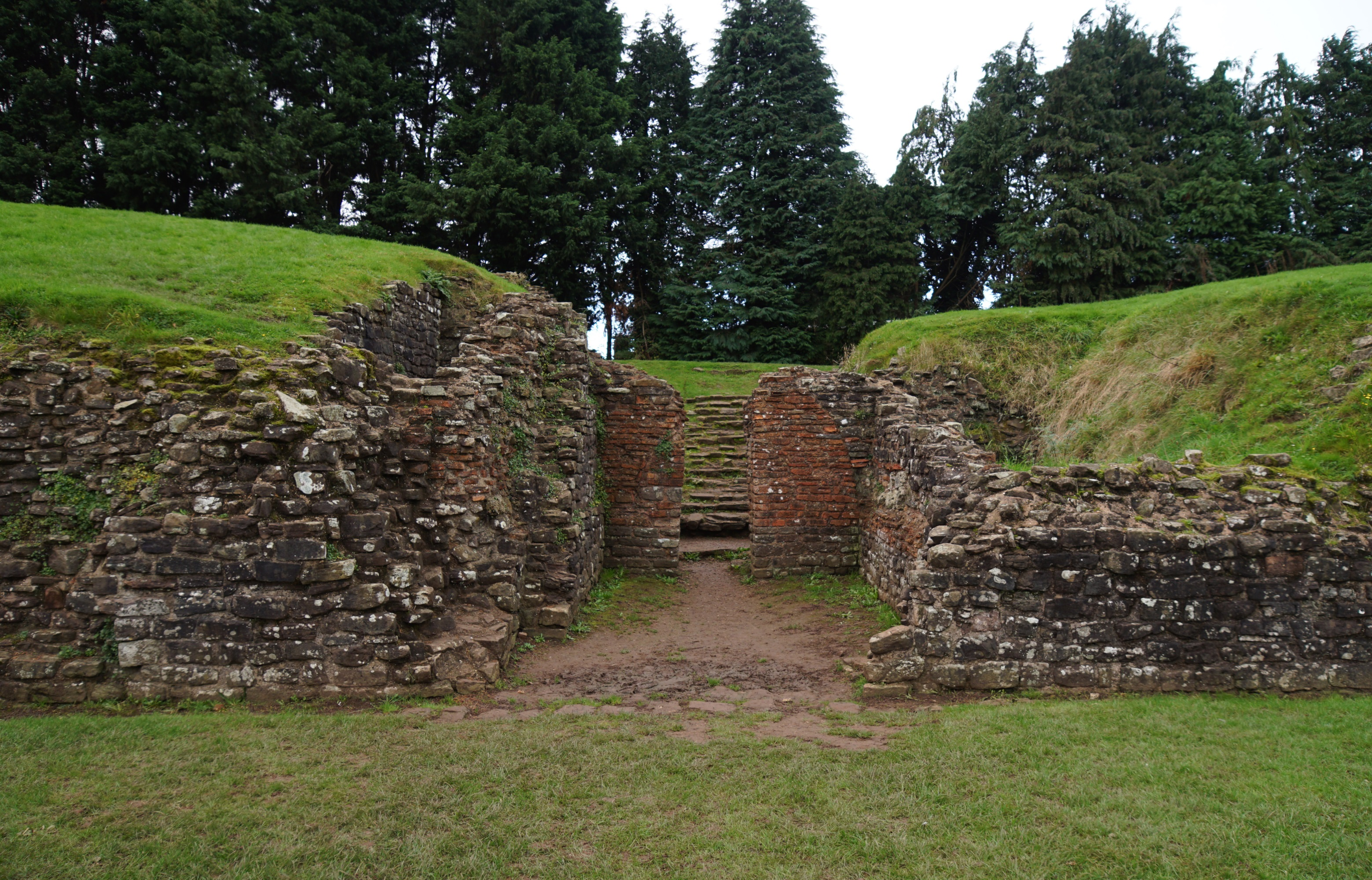 Caerleon Amphitheatre, Caerleon, Wales, United Kingdom. West entrance, seen from the arena.